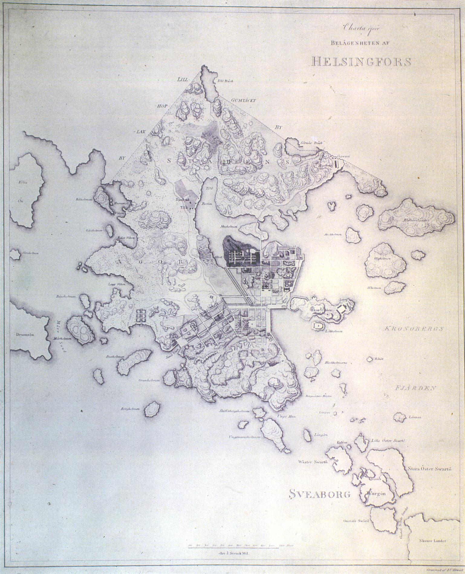 The map of Helsinki, Finland from 1815.